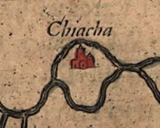 Detail of the Native American village of Chiaha (spelled "Chiacha" on the map) in what is now East Tennessee, in the southeastern United States, on a 1584 map of La Florida. The map was drawn by Spanish royal cartographer Geronimo Chiaves, and was probably based on accounts by members of the Hernando de Soto expedition (1539-1543). The map was originally published in Abraham Ortelius' Theatrum Orbis Terrarum in 1584.